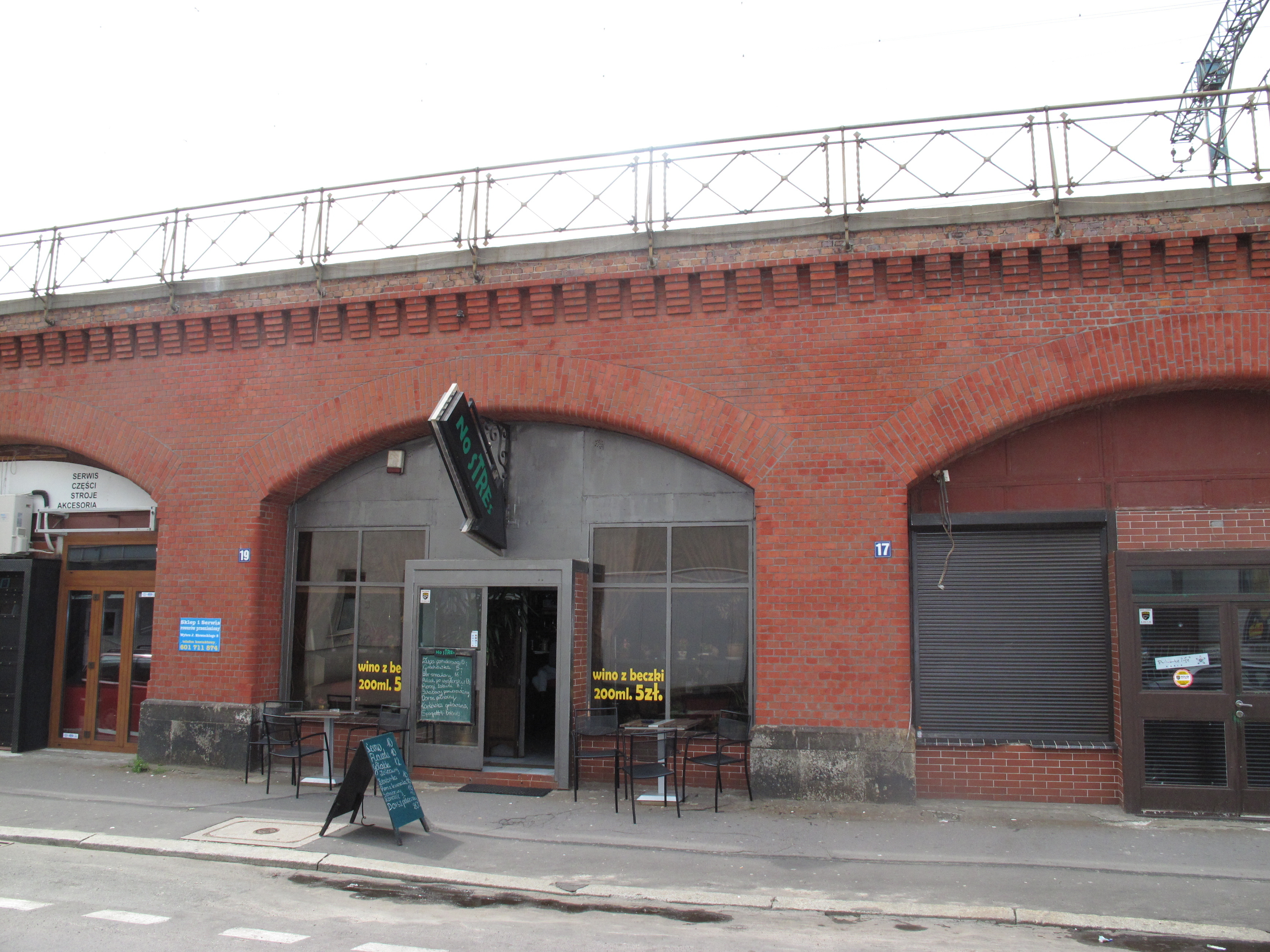 Wrocław, Poland, elevated Railway. Detail. View from the North.